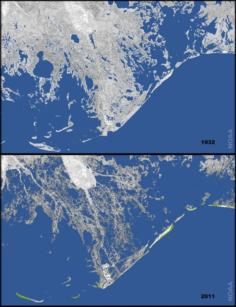 Every year, 25-35 square miles of land off the coast of Louisiana—an area larger than Manhattan–disappears into the water due to a combination of subsidence (soil settling) and global sea level rise. The maps at right show how much land has been lost to the Gulf of Mexico in the past 80 year. The second image shows the state of the coast in 1932. The image combines the 2011 satellite image with a U.S. Geological Survey map in which land areas that were present in 1932 are light gray. Since the 1930s, (source : NOAA ; Underwater: Land loss in coastal Louisiana since 1932 (click under the picture to see the two maps), on line 2013-04-04